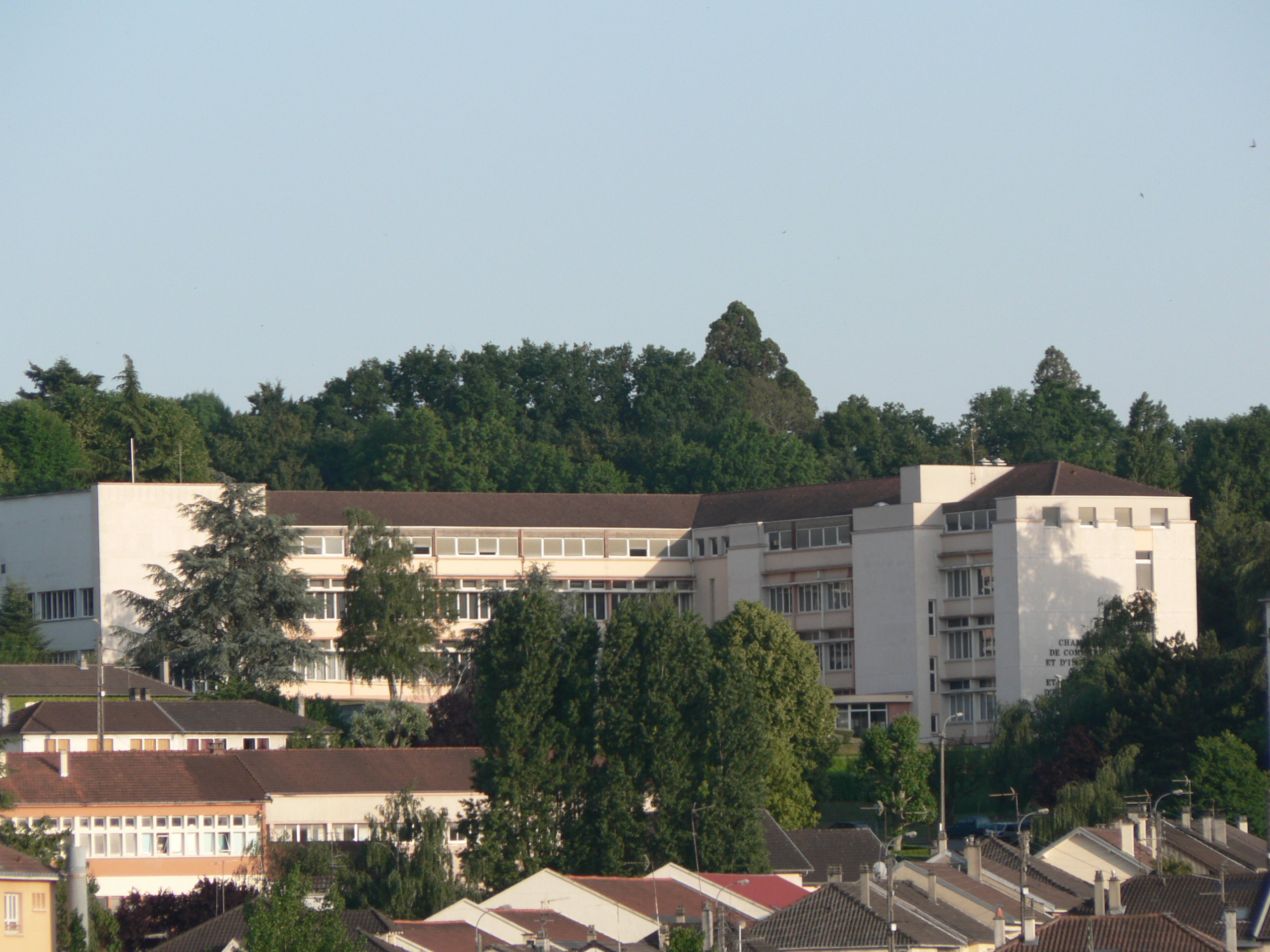 Ingeneering School 3iL (sight by far), Limoges, France